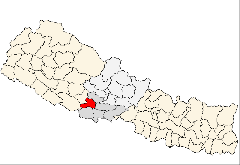 FrenchCarte de localisation dudistrict d'Argakhachi(wp-FR),au Népal (wp-FR).EnglishLocation map ofArgakhachi District(wp-EN),in Nepal (wp-EN).